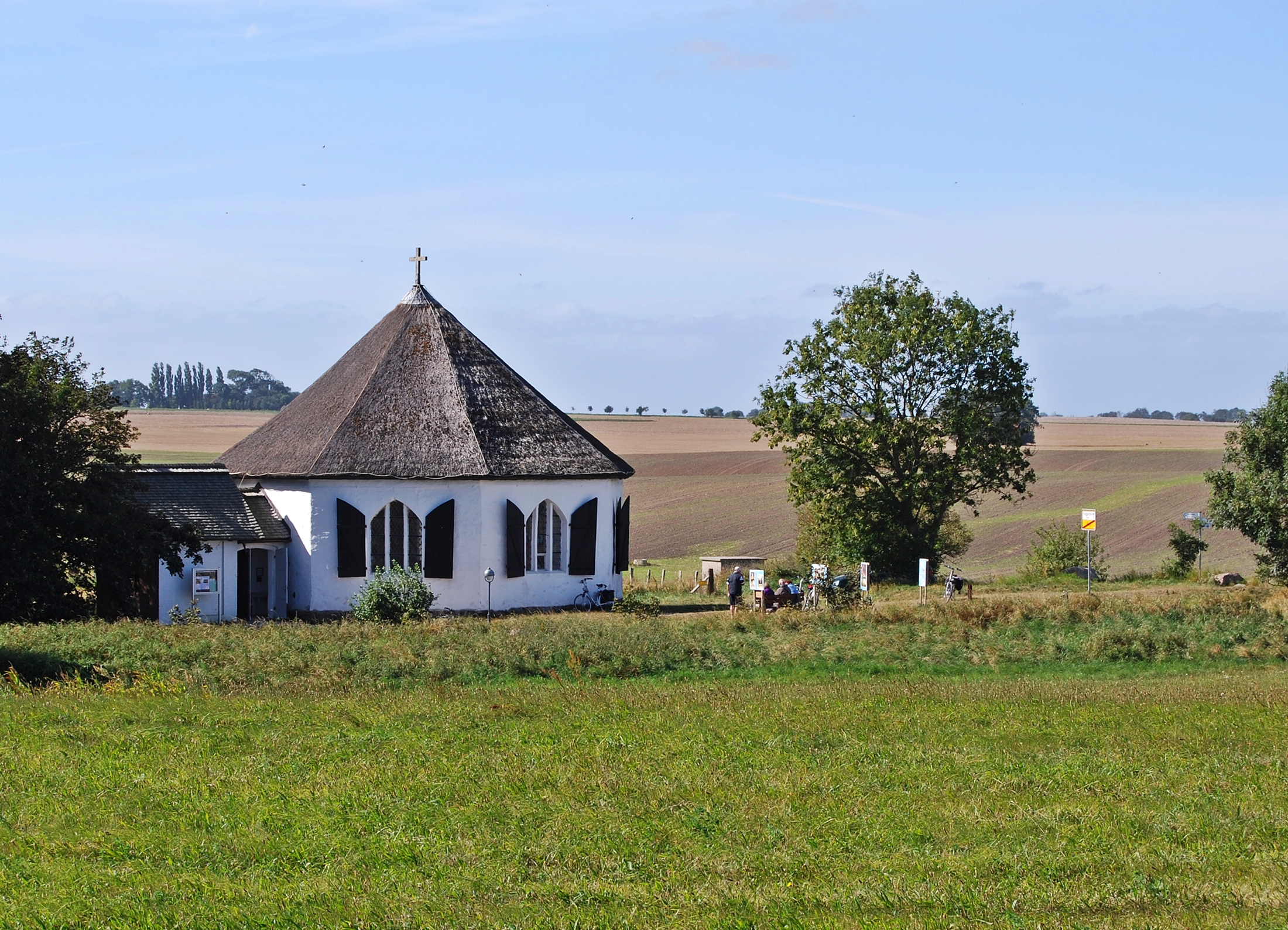 Vitt chapel above the fishing village Vitt, Rügen.